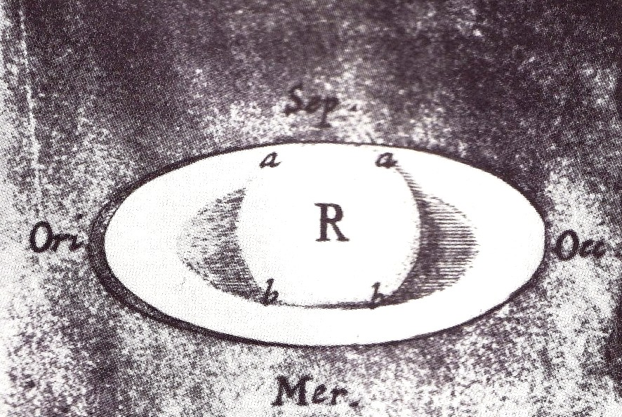 Old drawing of Saturn by Robert Hooke. R indicates Saturn's globe, the two letters a indicate the expected overlap of the globe on the rings. Hooke's shading on the rings to the right of the right-hand a only (i.e. not at the left-hand a), indicates the shadow of the globe on the rings. The two letters b indicate the expected overlap of the rings on the globe. Hooke's shading on the globe between the right-hand and left-hand bs could indicate the shadow of the rings on the globe, or the faint C-ring faintly blocking part of the globe. The abbreviations marked around Saturn indicate directions: Sep. for Septentrional or northern; Mer. for Meridional; Occ. for Occidental or western; and Ori. for Oriental or eastern.